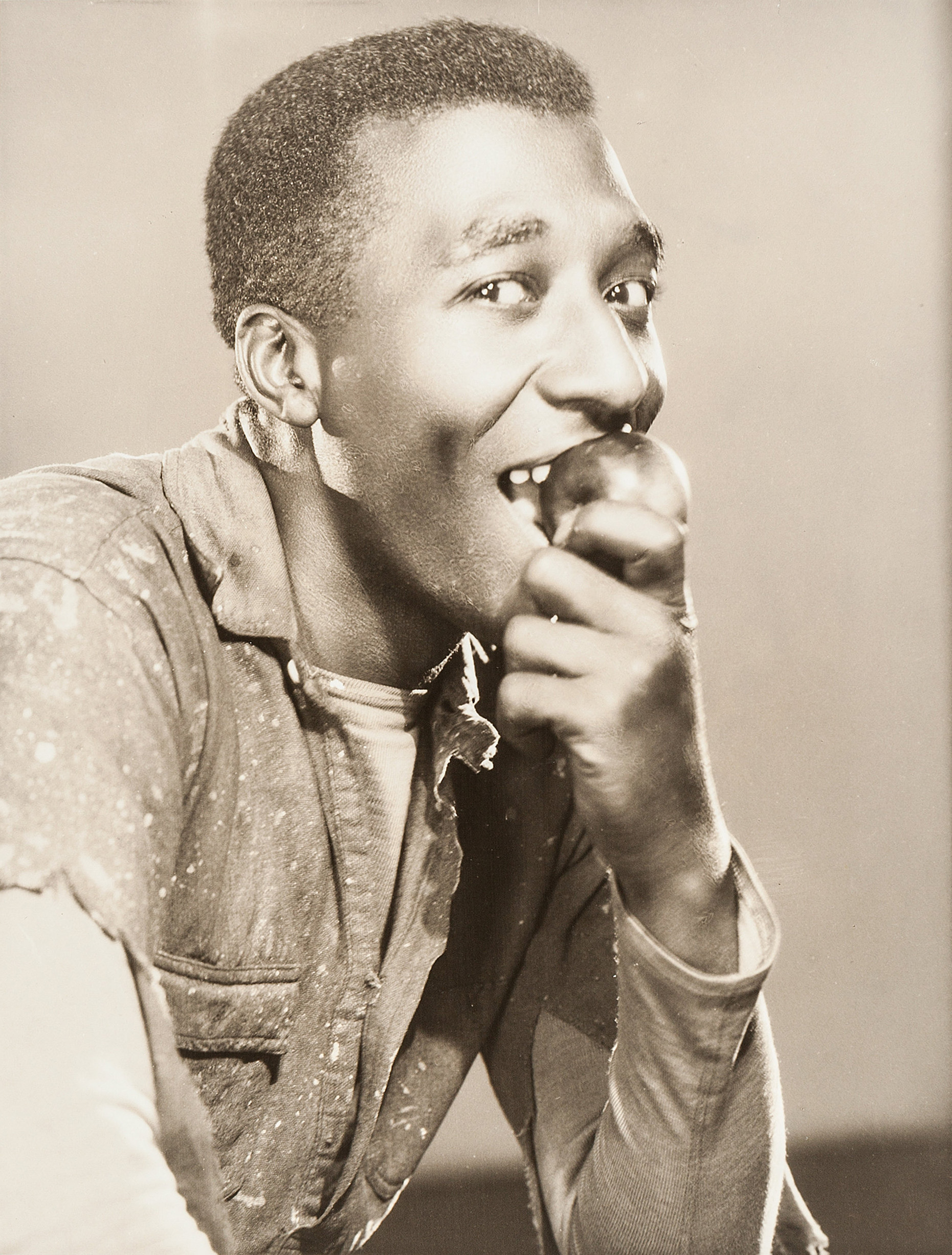 Publicity photo of American actor Daniel L. Haynes promoting his role in the 1929 film Hallelujah.